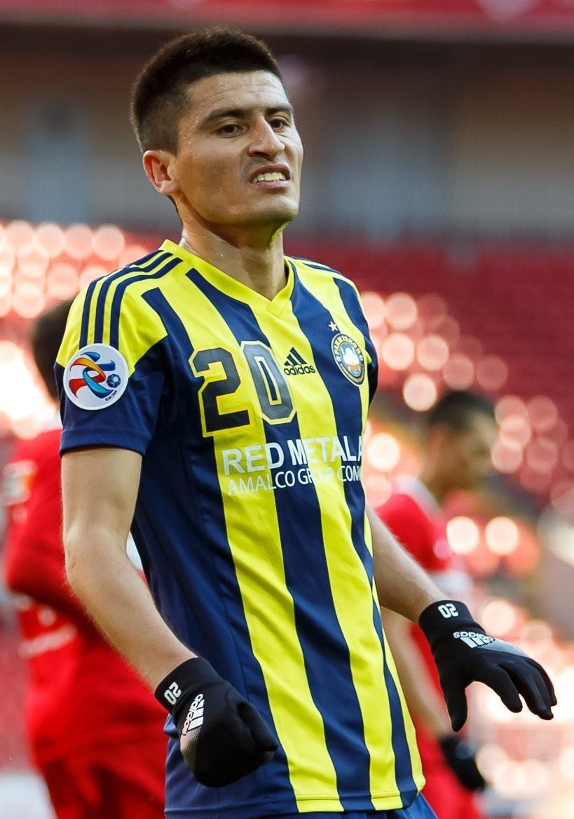 Odiljon Hamrobekov playing for Pakhtakor Tashkent in a friendly game against FC Spartak Moscow.